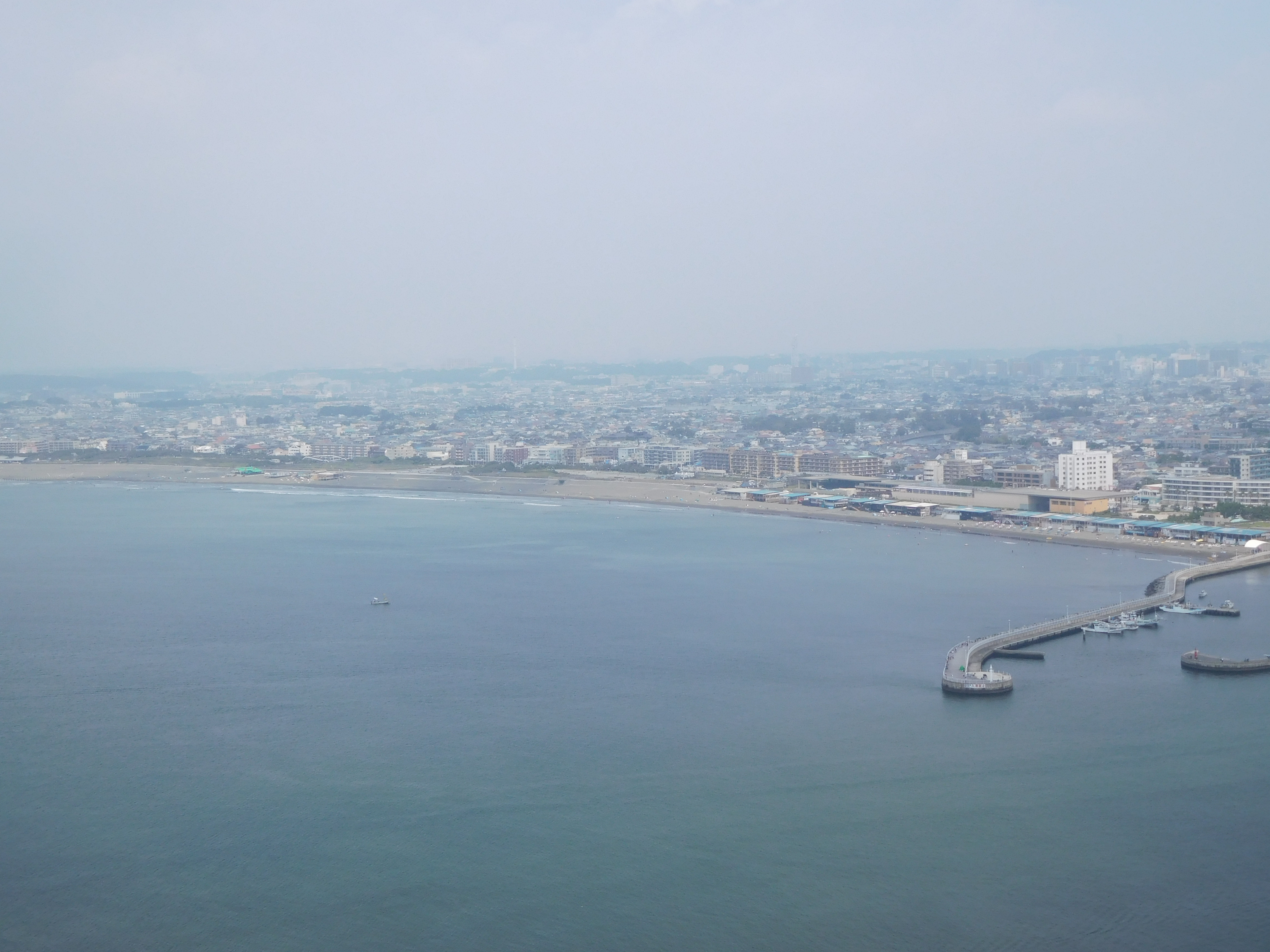 This is Katase West Beach in Fujisawa, Kanagawa, Japan. I took this picture from Enoshima Sea Candle.